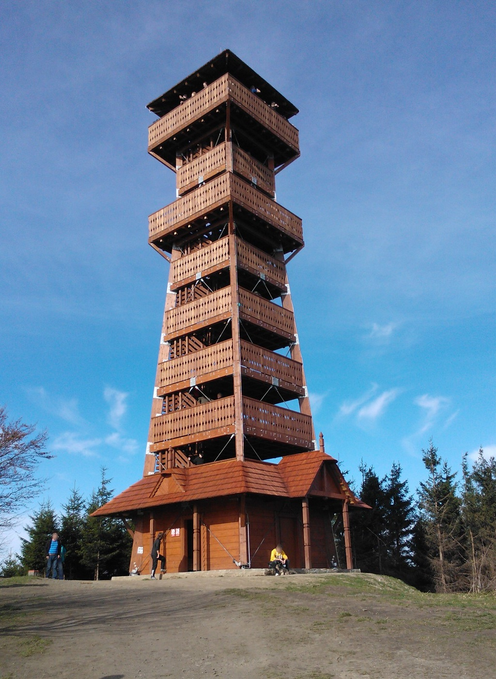 Velky Javornik (Mountain in East part of Czech Republic) - Lookout Tower